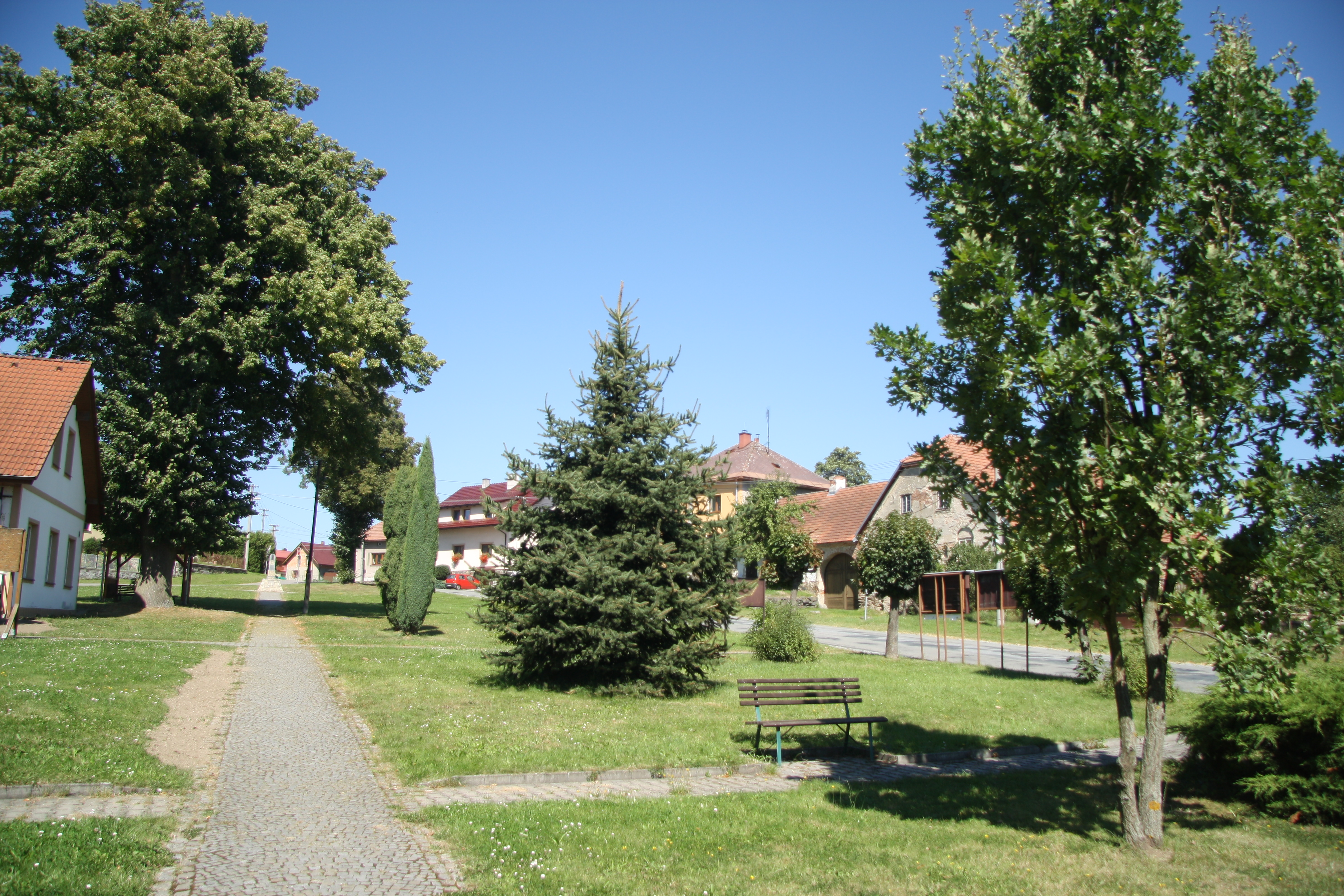 Center of Březí nad Oslavou, Žďár nad Sázavou District.